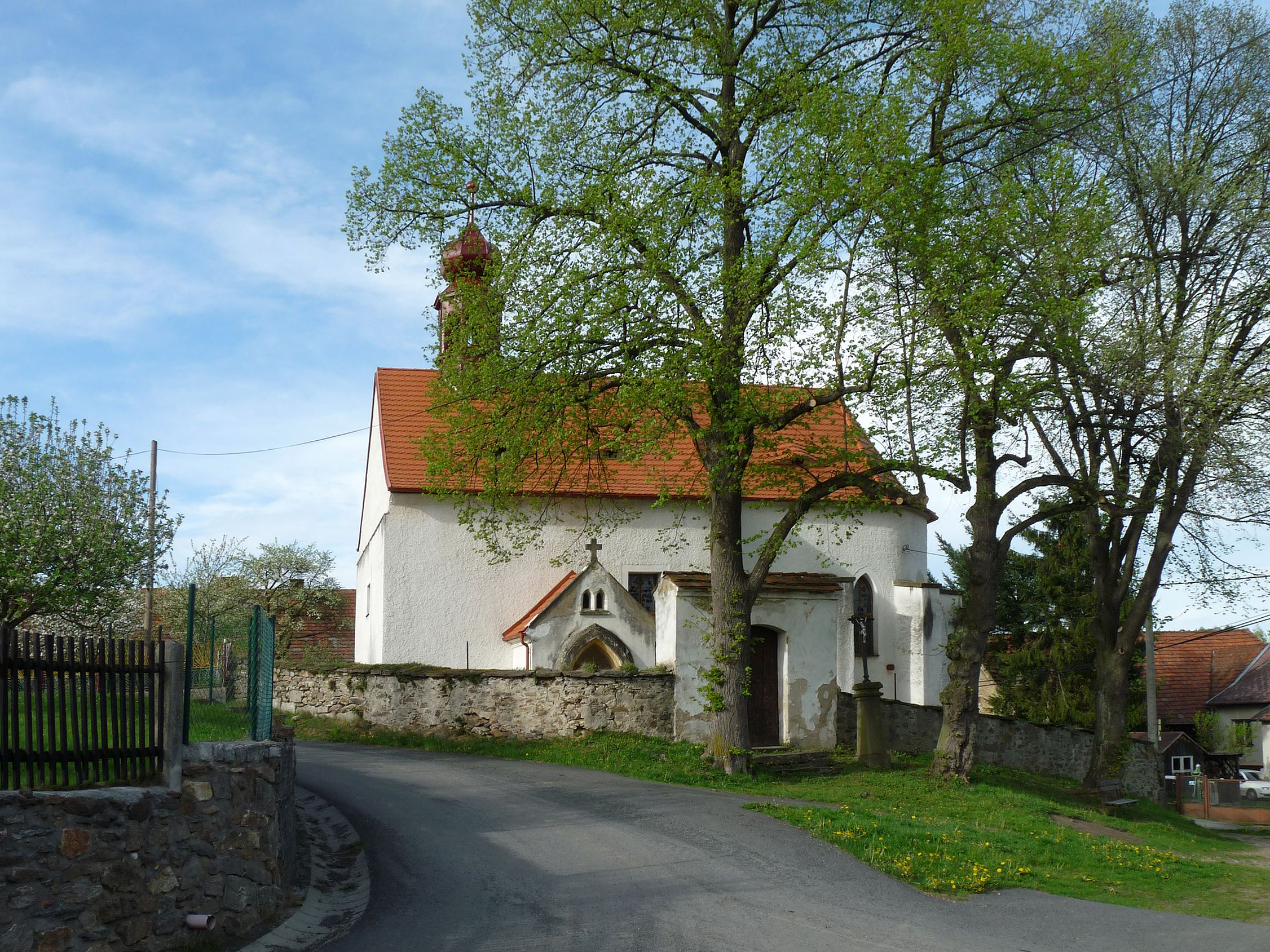 Saint Matthew Church in the village of Křištín, part of the town of Klatovy, Klatovy District, Czech Republic.